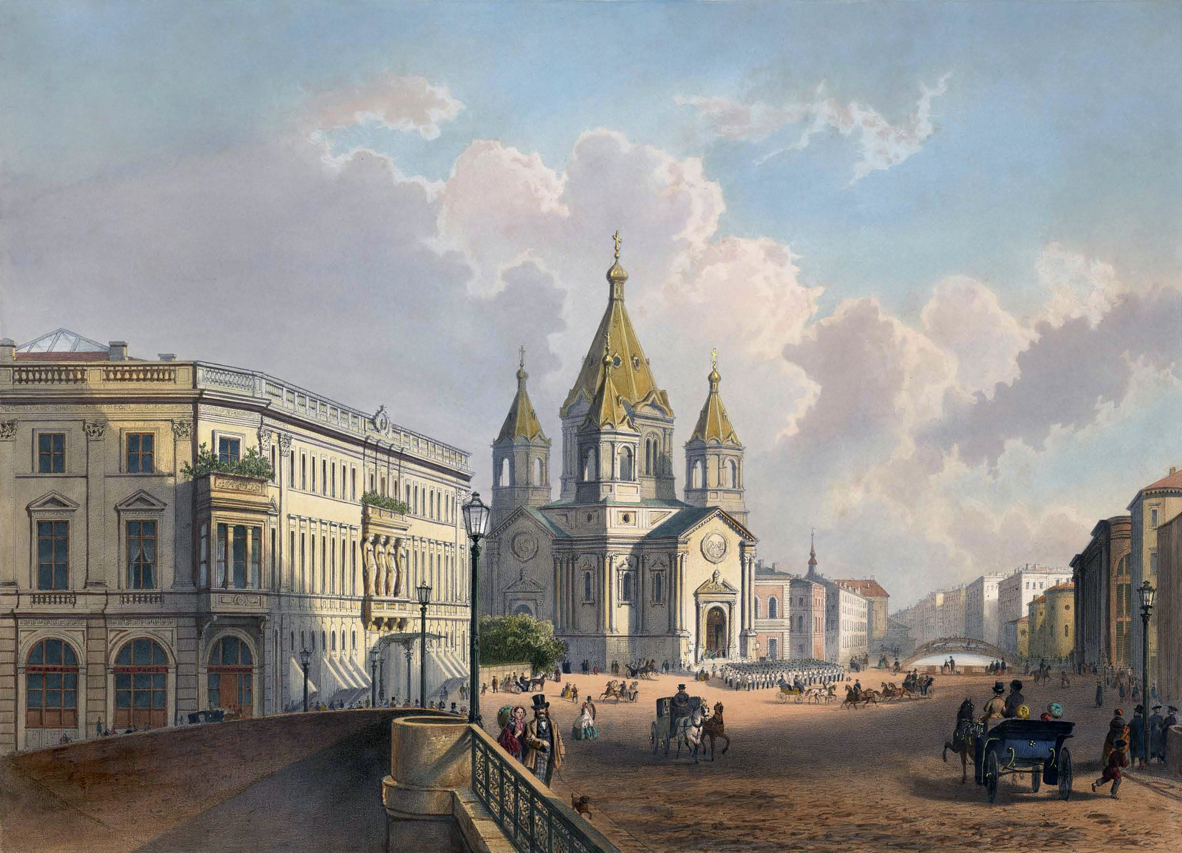 The Church of the Annunciation of the horse guards regiment in St. Petersburg in the 19th century lithograph after a drawing by Charlemagne